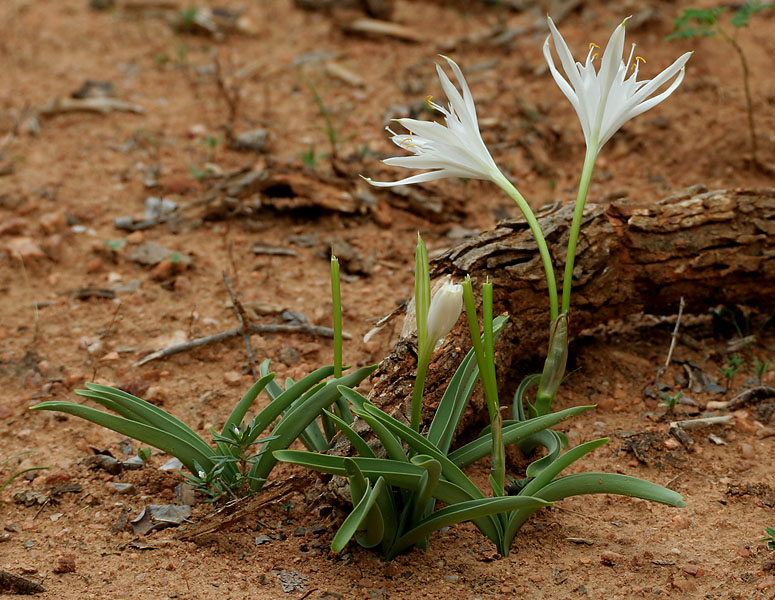 Pancratium parvum - Forest Spider Lily, Funnel narcissuses • Marathi: लांब पानकुसुम Lamb pankusum - in Hyderabad, India.